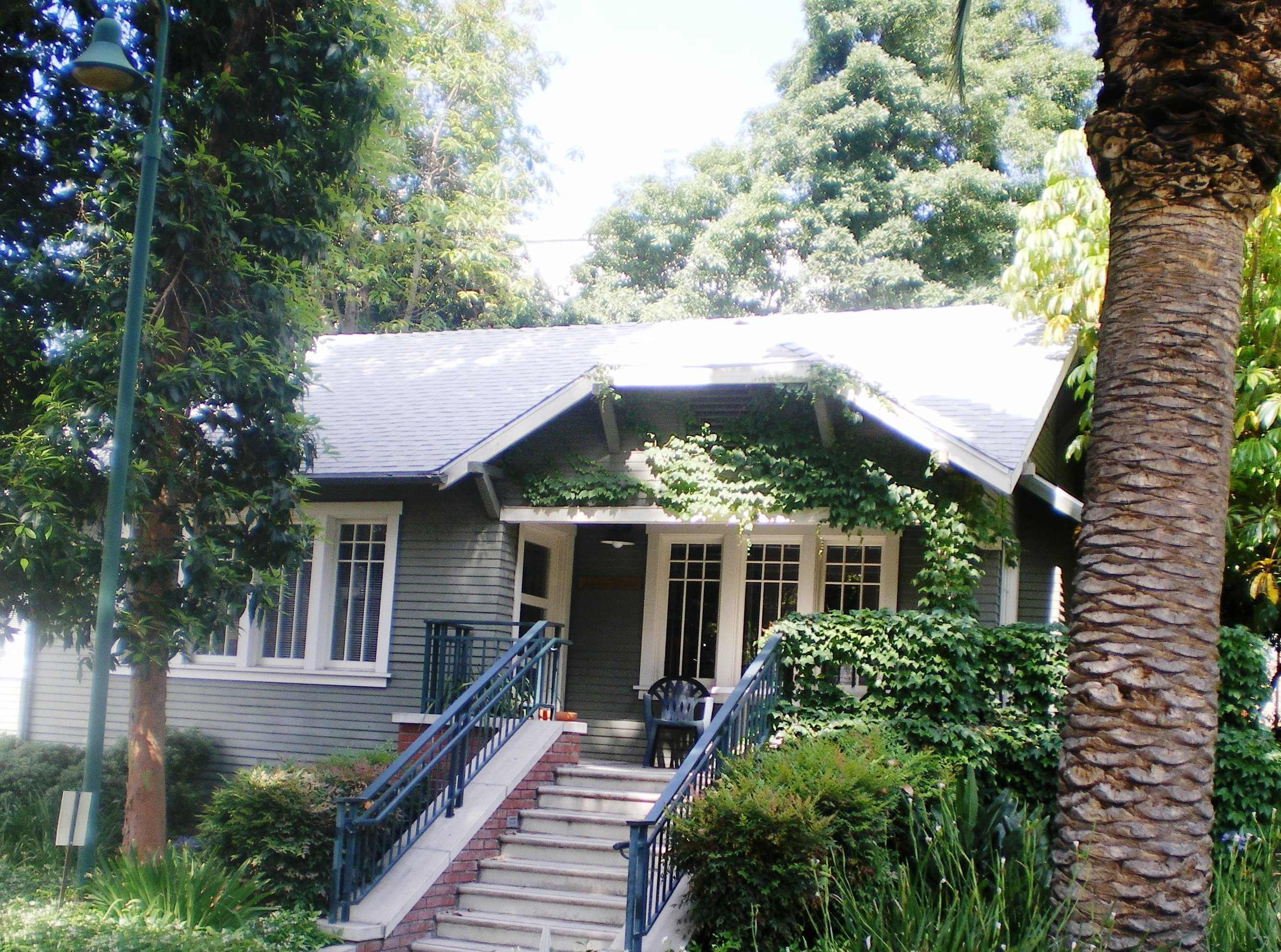 Highland-Camrose Bungalow Village — in Hollywood, Los Angeles, California. Historic district grouping of California bungalows (style) on the Northwest corner of Highland Avenue and Camrose